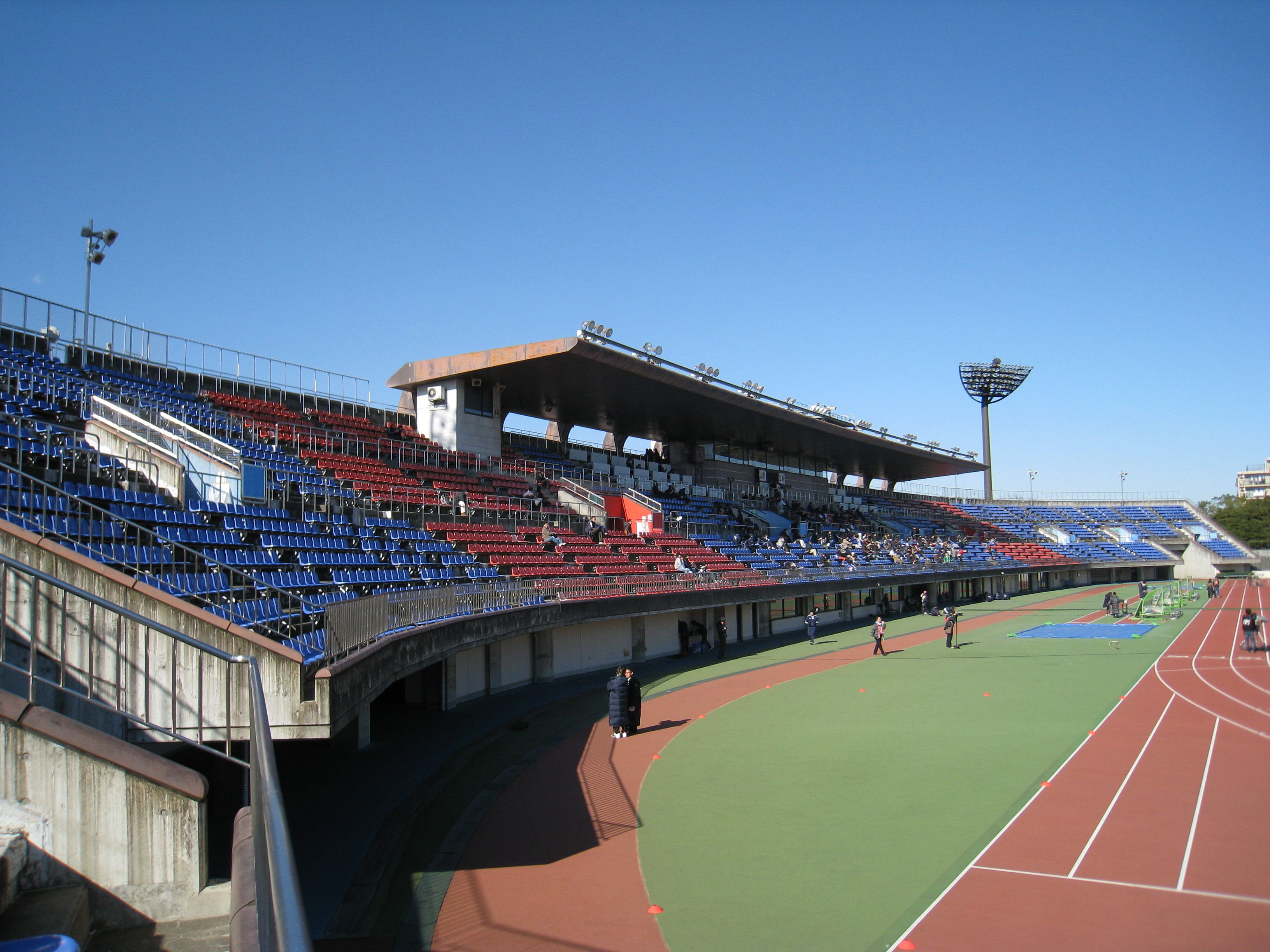 Hiratsuka Stadium. Hiratsuka-city,Kanagawa-Pref,Japan